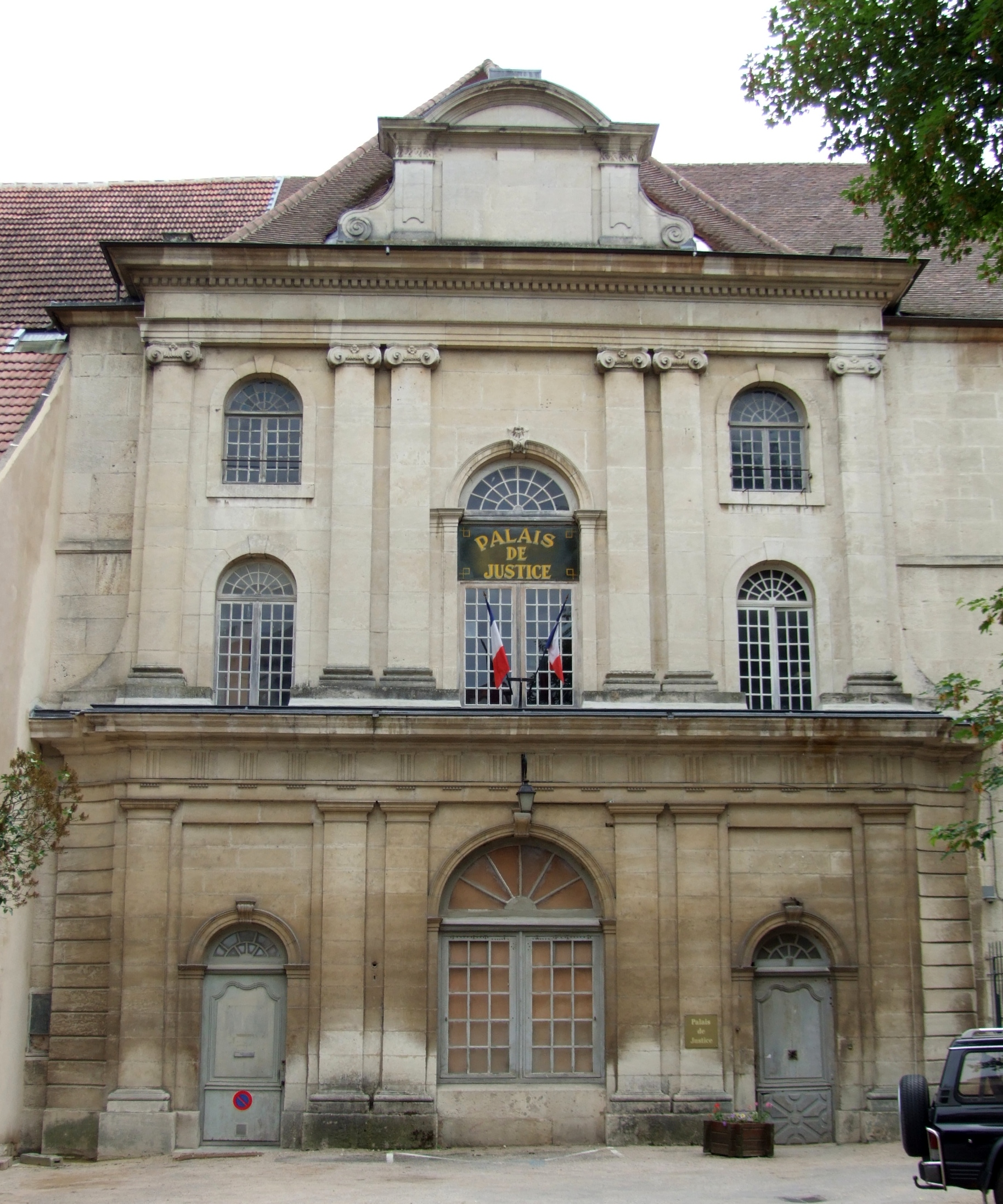 Dole, Jura, FRANCE